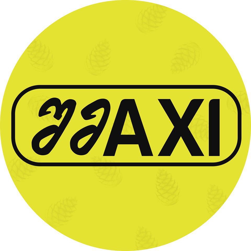 Logo for Girchi's Shmaxi initiative, established to in opposition to legislation passed on Taxis in Georgia